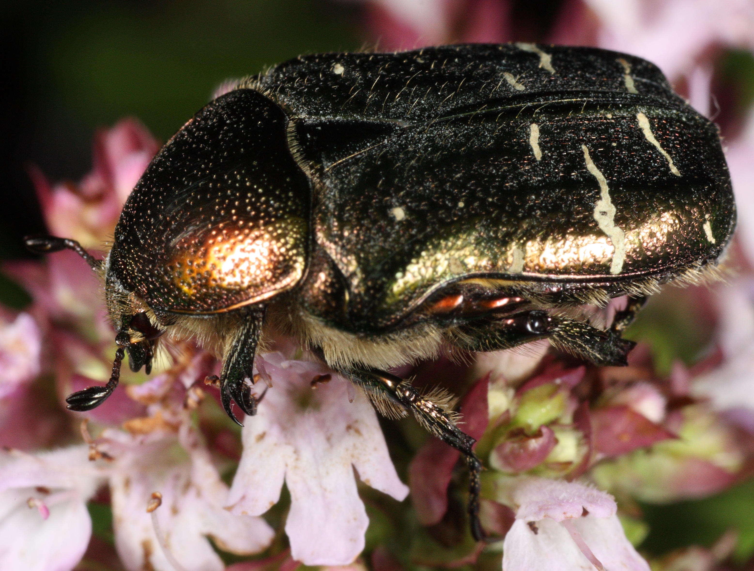 Cetonia aurata resting om a flower. Mark room for wings.